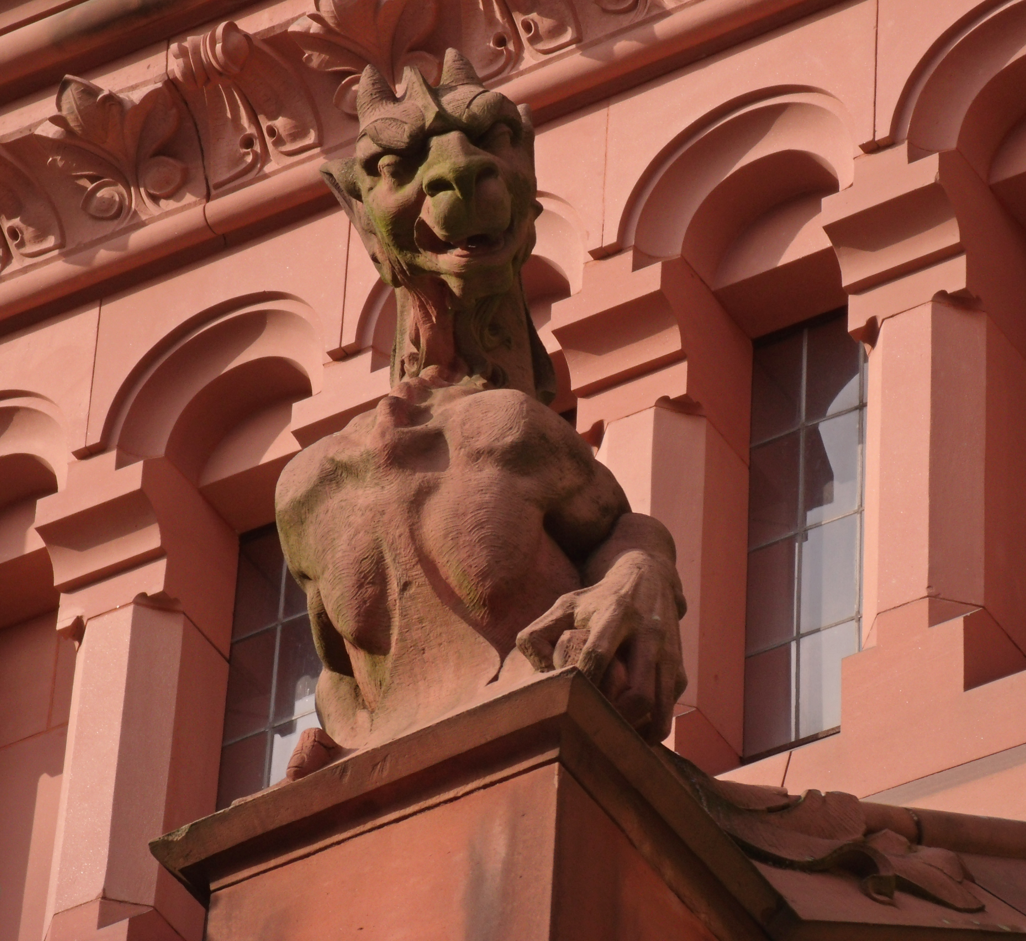 One of many gargoyles at the Großherzogliche Grabkapelle Karlsruhe